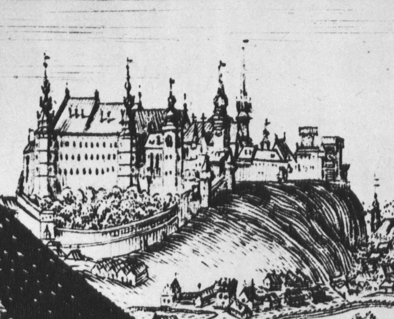 View of the Wawel Castle in Kraków, Poland, 1649